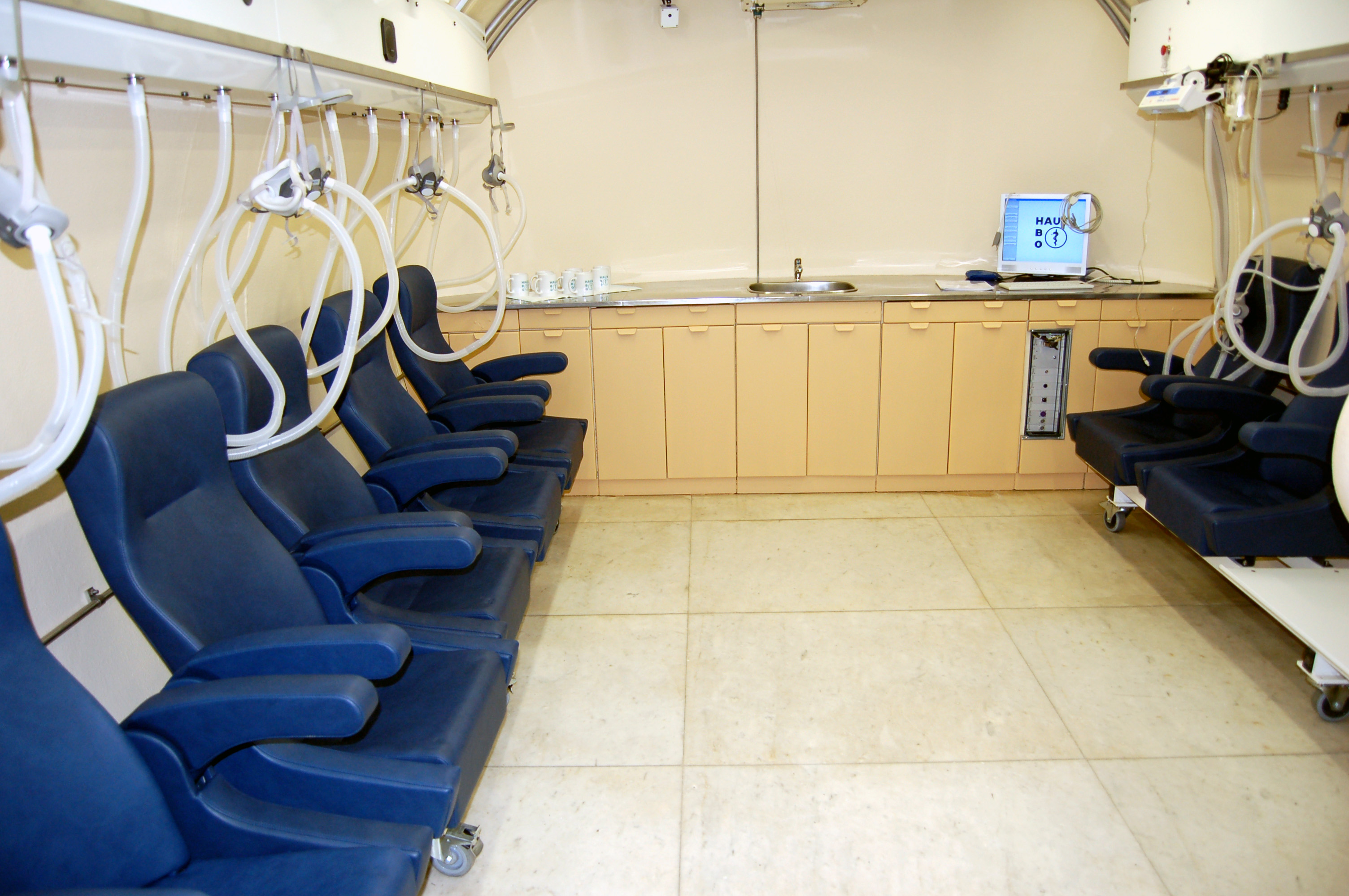 multiplace hyperbaric chamber